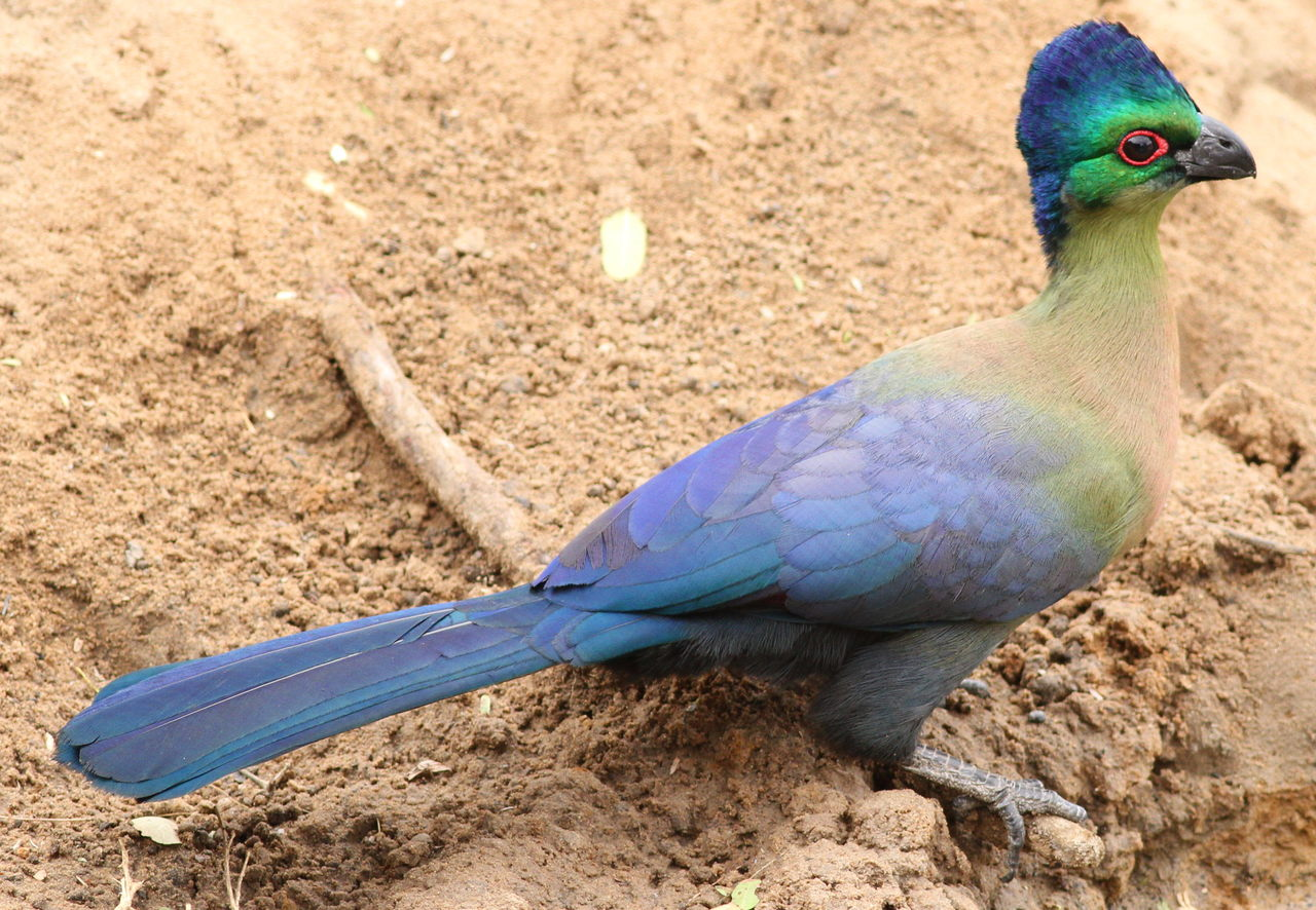 Purple-crested turaco, Tauraco porphyreolophus, at uMkhuze Game Reserve, kwaZulu-Natal, South Africa